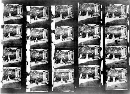 1930 copy of the Louis Le Prince's Roundhay Garden Scene original 1888 frames by the National Science Museum, London. Courtesy of NMPFT (Bradford).The 20 frames 1930 copy would run for 1.66 seconds at 12fps rate. Note that the 1930 copy is reversed! The steps and window of Oakwood Grange should be on the left-hand side of the scene, as shown in the later NMPFT digital copy.